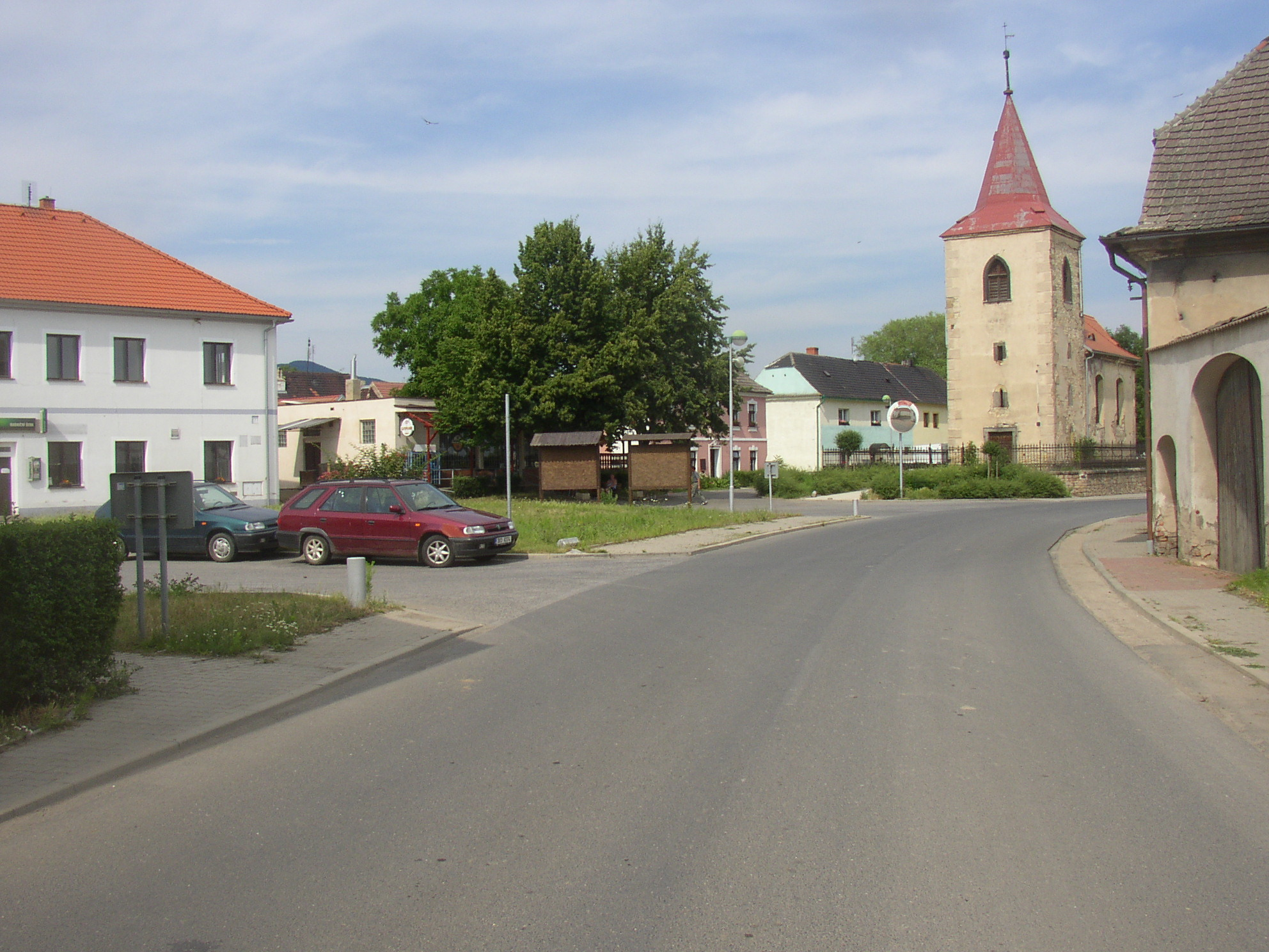 Mlékojedy, Litoměřice District, Czech Republic. Village square as seen from the southwest, St Martin church in the background.